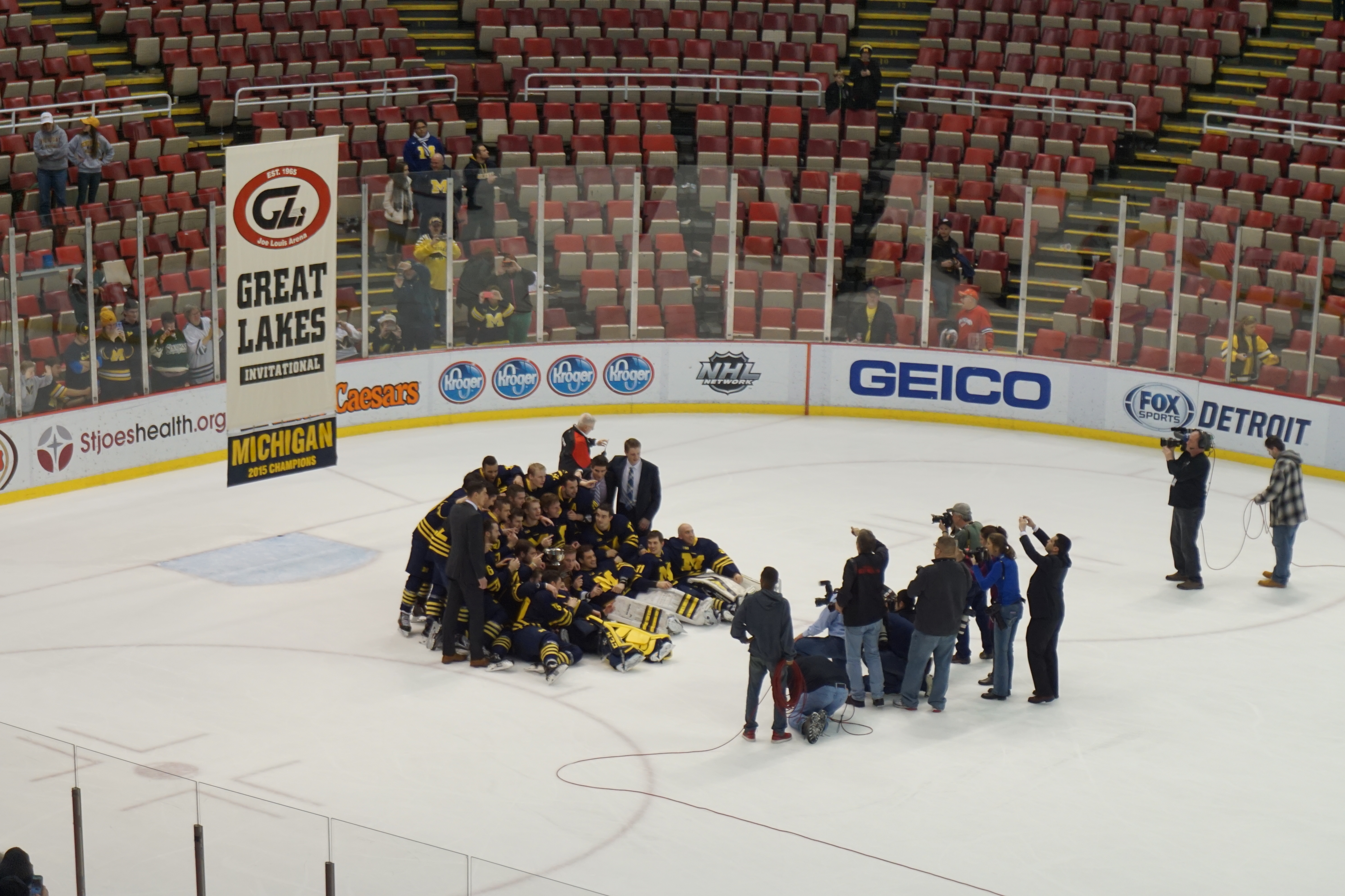 The post-game awards ceremony after the Michigan Wolverines vs. Michigan Tech Huskies men's ice hockey game (the 2015 Great Lakes Invitational championship game) at Joe Louis Arena in Detroit, Michigan (United States). Michigan won 4–2.